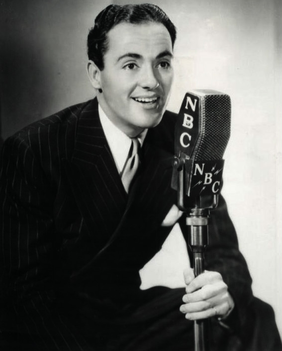 Photo of Charles "Buddy" Rogers from his NBC Radio program, The Twin Stars.